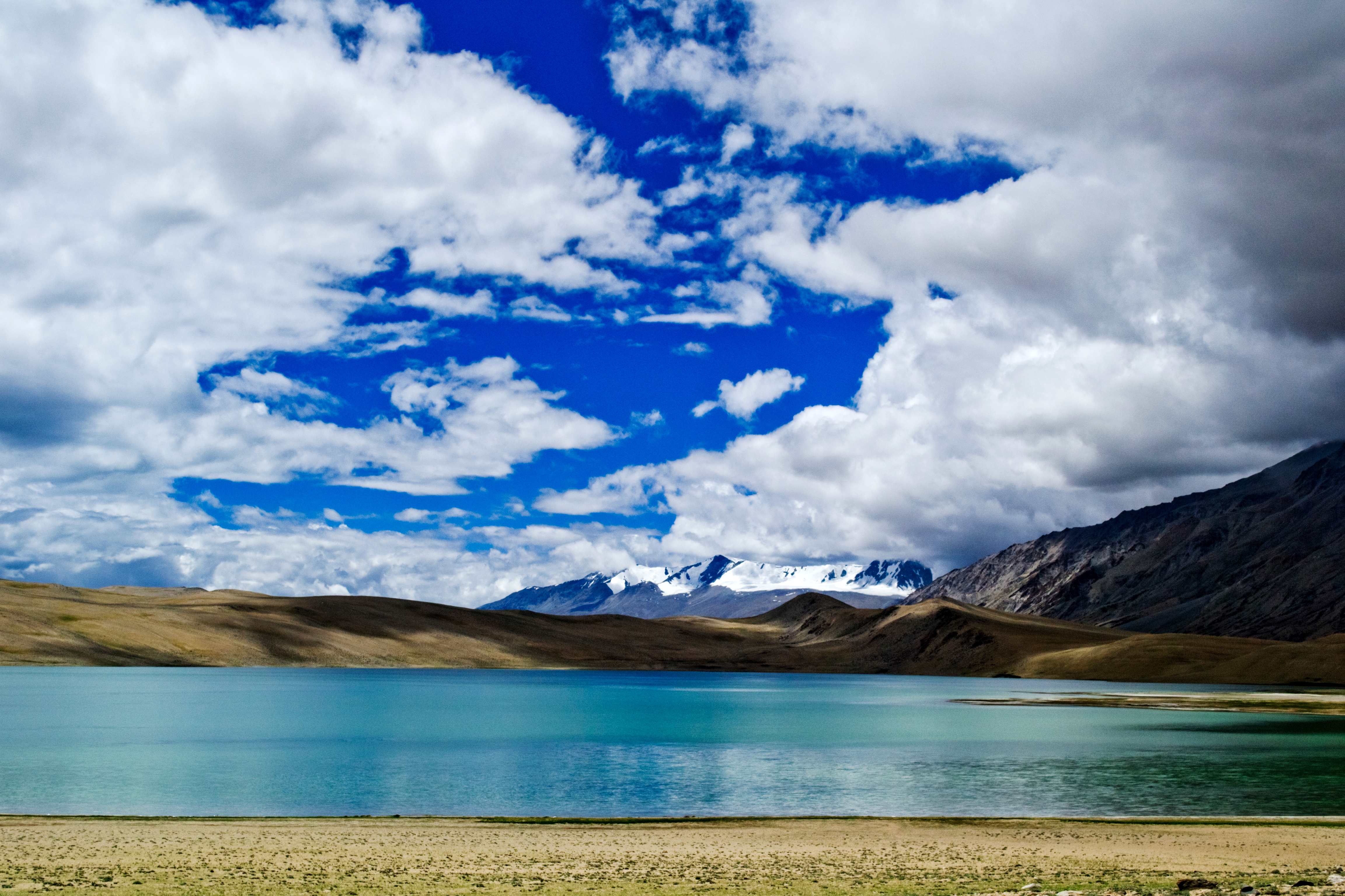 Taken during month of august 2012